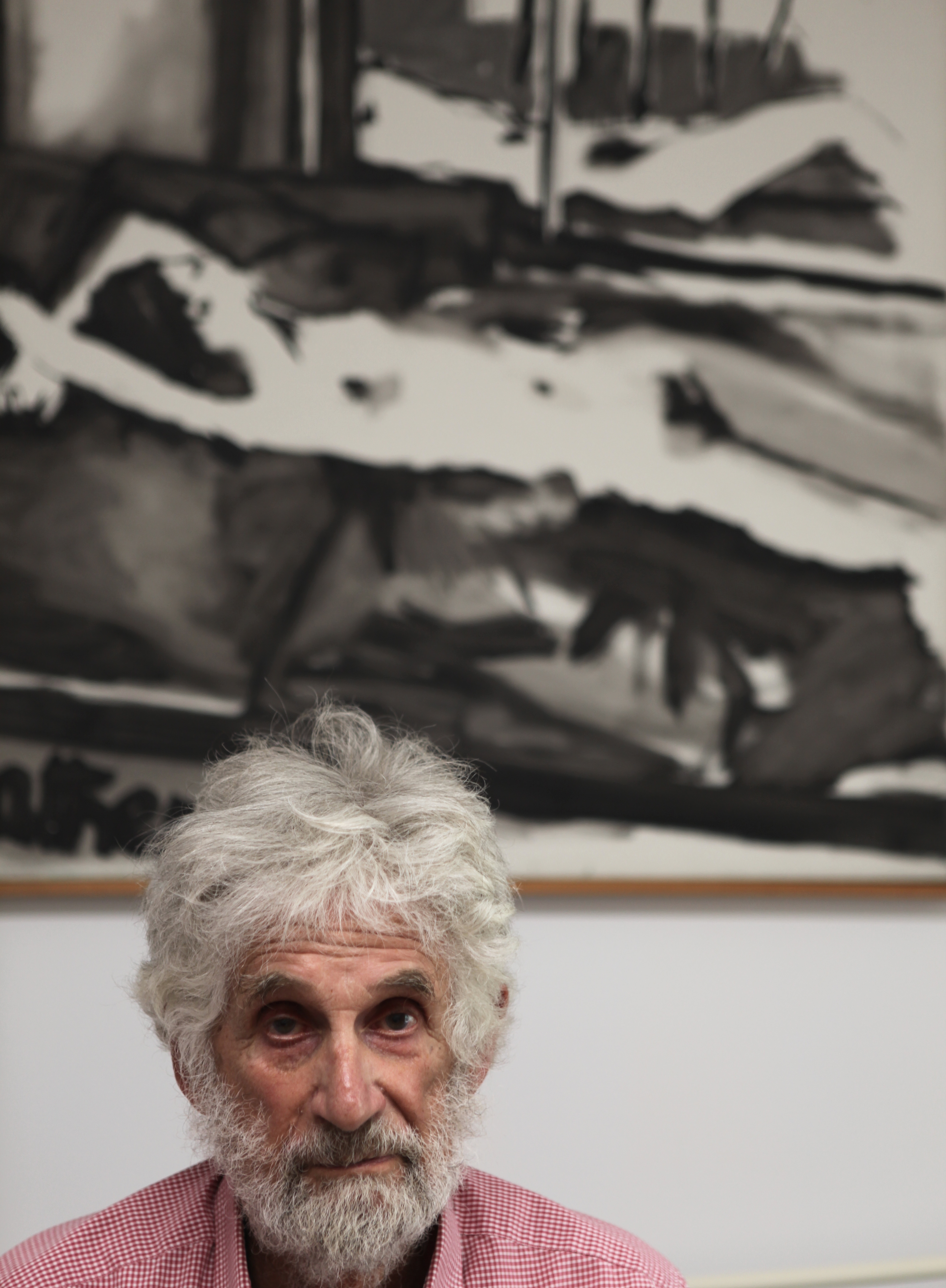 Philip Sutton photographed at home in front of a painting of his wife Heather Sutton